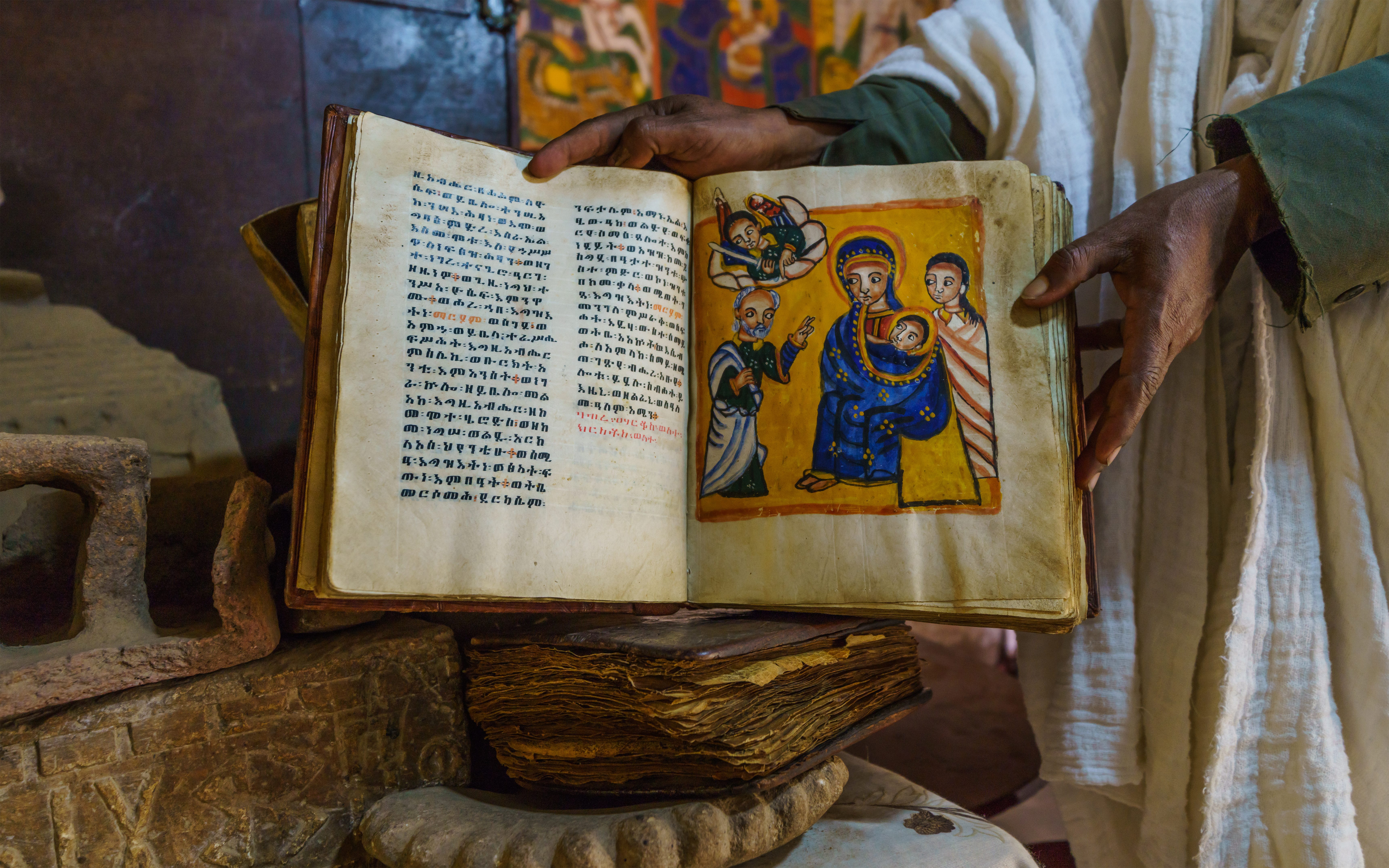 Monastery of Yeha in Tigray Region, Ethiopia